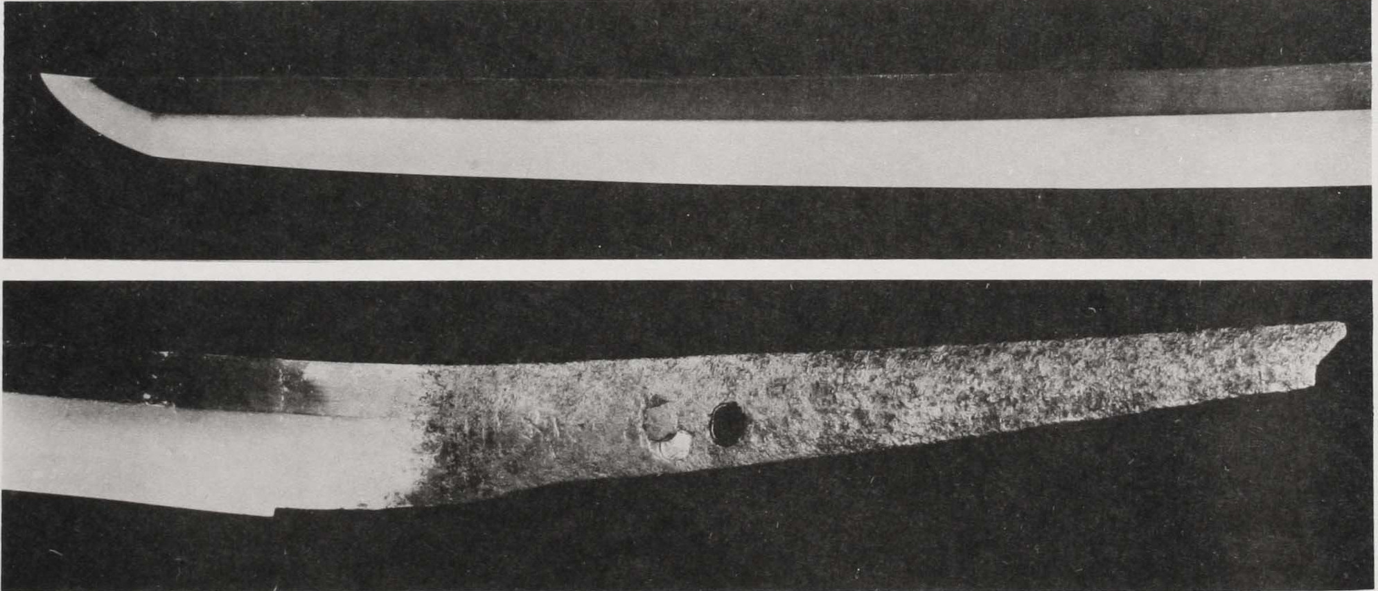 Tachi or Crescent Moon Munechika mikazuki munechika, Sanjo Munechika, One of the Five Swords under Heaven; the name, "crescent moon" refers to the shape of the tempering pattern; owned by Koudai-in, wife of Toyotomi Hideyoshi who bequeathed it to Tokugawa Hidetada, then handed down in the Tokugawa clan; curvature: 2.7 cm (1.1 in) Heian period, 10th-11th century